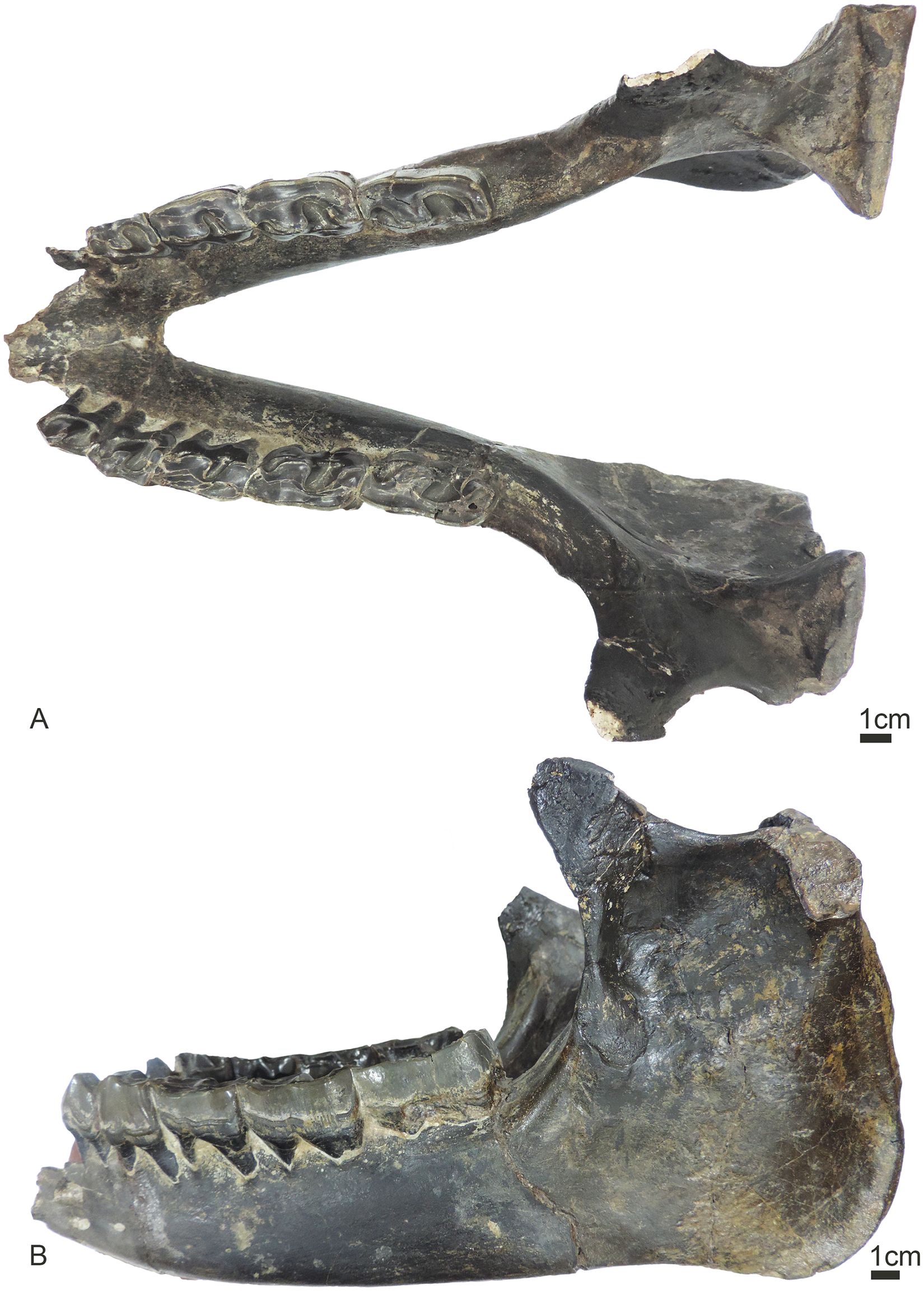 Sellamynodon, mandible of Sellamynodon zimborensis; UBB MPS 15795 (holotype) A: occlusal and B: lateral views; Dobârca (Romania); Upper Eocene-Lower Oligocene